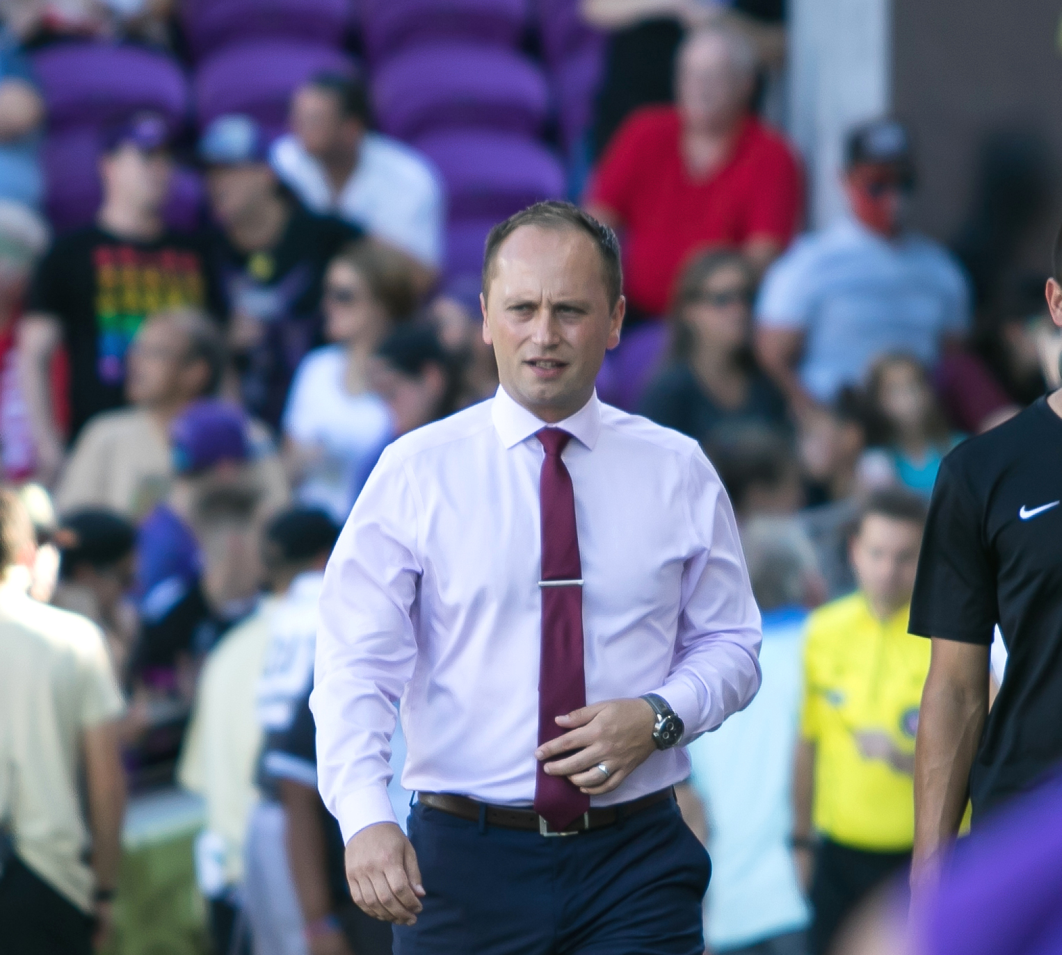 Mark Parsons coaching the 2017 Portland Thorns FC